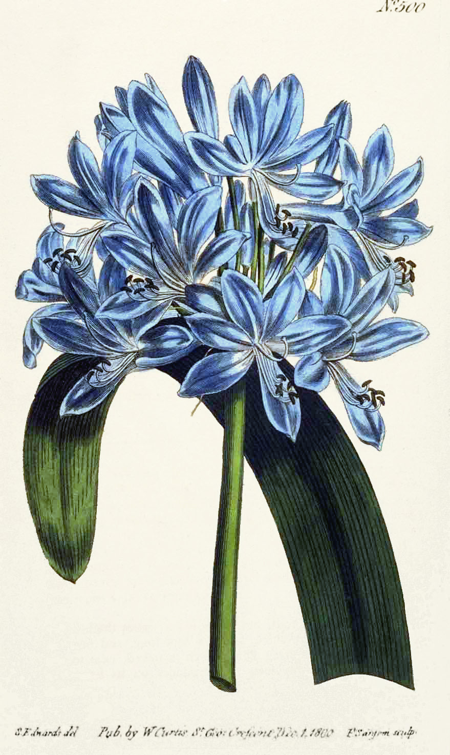 African Agapanthus Agapanthus africanus (Agapanthus umbellatus) Downloaded from : en: From The Botanical Magazine vol. 14 pl. 500 (1800) Text and images in this presentation are not copyrighted, and may be used with attribution to the National Agricultural Library, ARS, USDA.